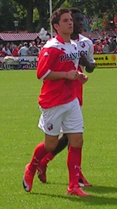 Belgian footballer Dries Mertens during the first training of FC Utrecht (2009-2010)